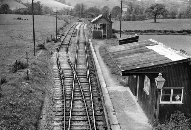 Blodwell Junction Station. View WSW, towards Llangynog on Tanat Valley Railway from Oswestry. In the distance on the left the mineral line, coming from Nantmawr behind the camera, branches left to Llanymynech. The TVR lost its passenger traffic on 15/1/51 and goods from 6/1/64 (1/7/52 west of Llanraiadr), the other line never carried passengers. The line from Oswestry (also east from Gobowen) to here had been mothballed by Network Rail in 1988 and in 2008 was acquired by the Cambrian Railways Society.